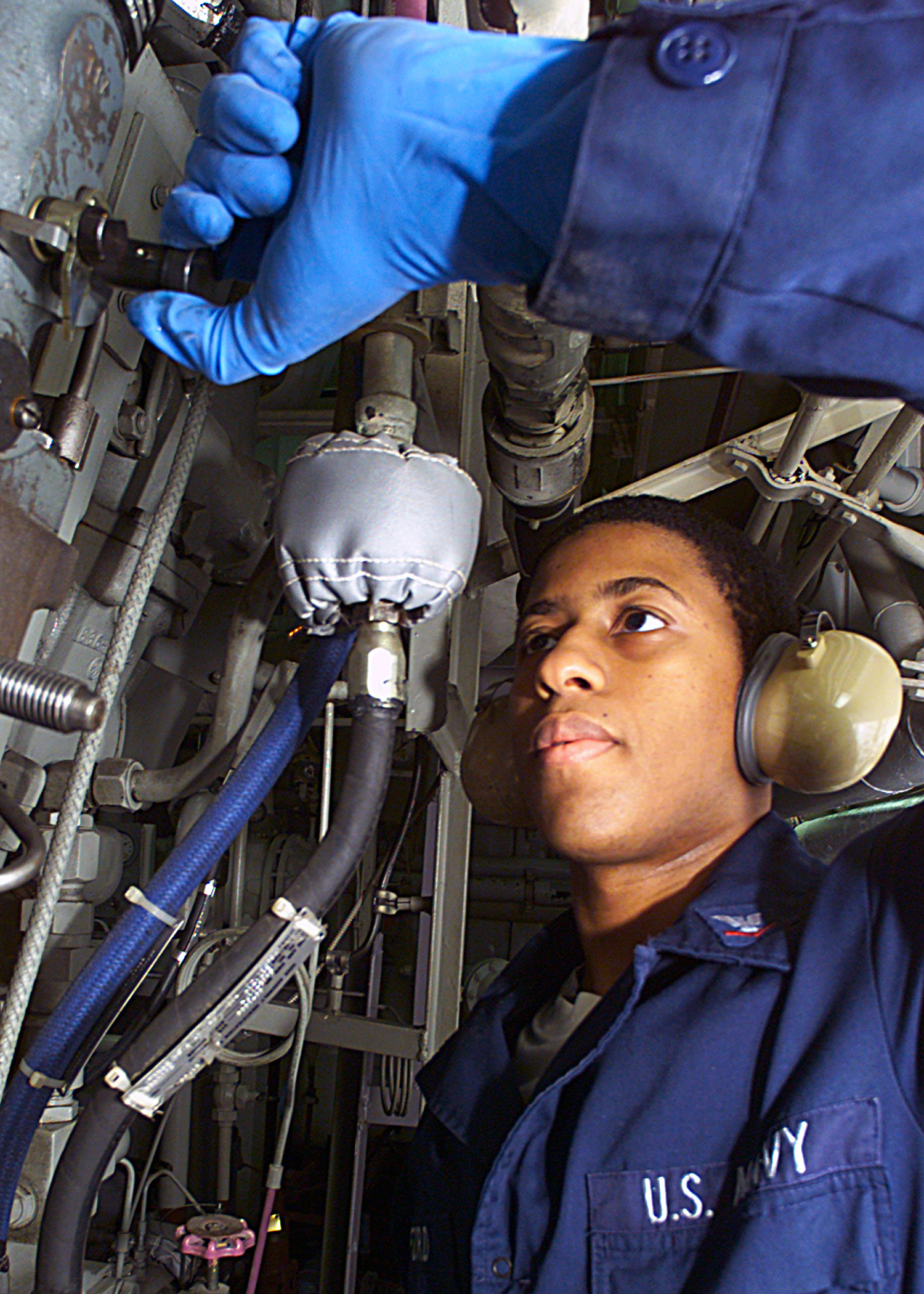 Arabian Gulf (Mar. 3, 2003) -- Engineman performs checks on a Diesel Rack Alignment aboard the amphibious assault ship USS Kearsarge (LHD 3). Kearsarge is currently deployed as the flagship of Amphibious Task Force East (ATF-E) in support of Operation Enduring Freedom. U.S. Navy photo by Photographer’s Mate Airman Kenny Swartout. (RELEASED)